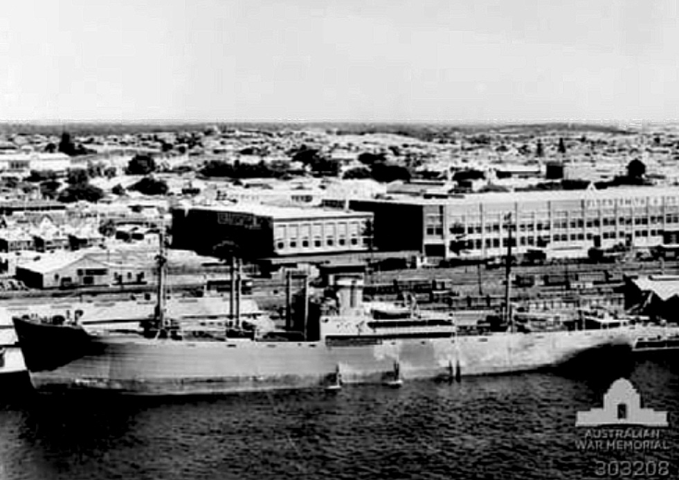 Fremantle, WA. 1941-12-22. Aerial side view of the Filipino-American cargo motor vessel Dona Nati.